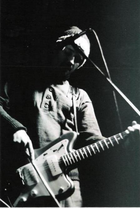 Calvin Holgate snapped this photo at an Uzi and Ari show in Logan, Utah.